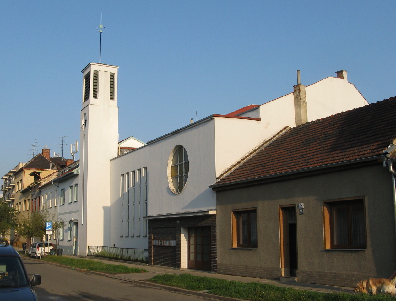 Building of the Evangelical Church of Czech Brethren, Brno, Židenice